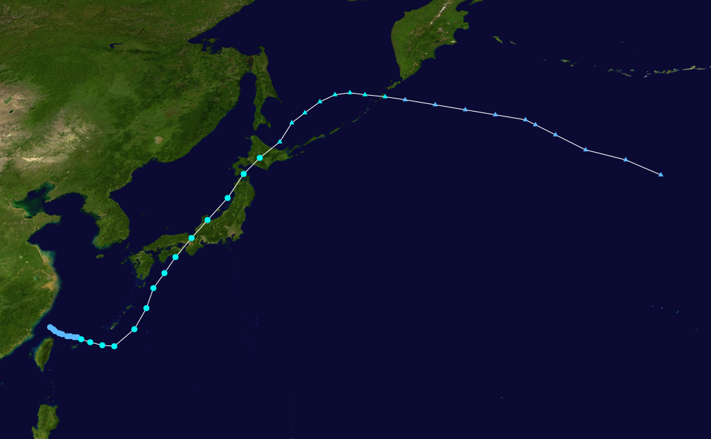 Tropical Storm Roger 1989 track. Uses the color scheme from the Saffir-Simpson Hurricane Scale.